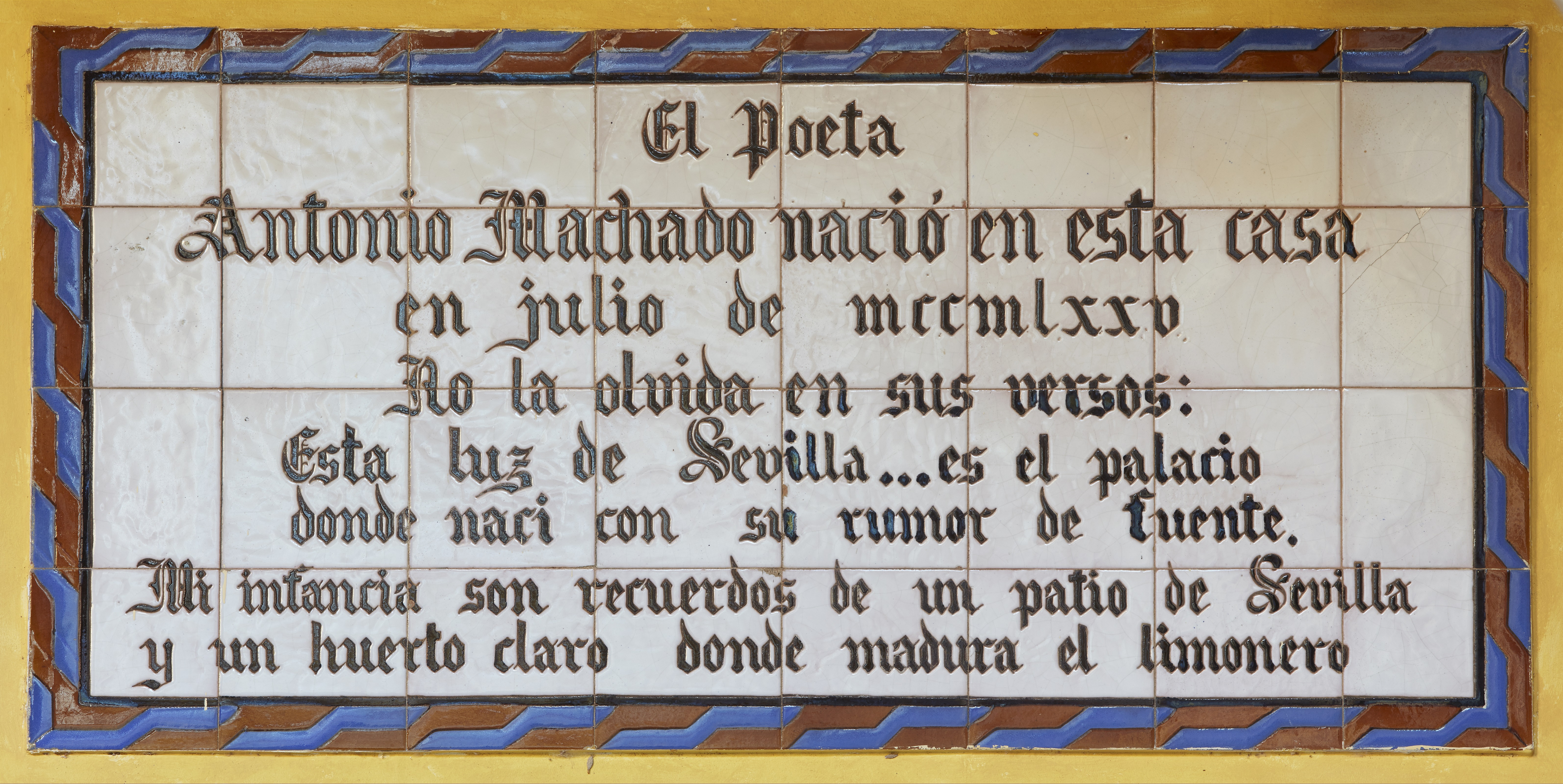 Antonio Machado plaque for his birthday